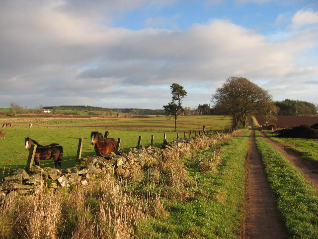 Gask Ridge Roman Road. Looking east along the course of the Gask Ridge Roman Road, from near the site of a signal station